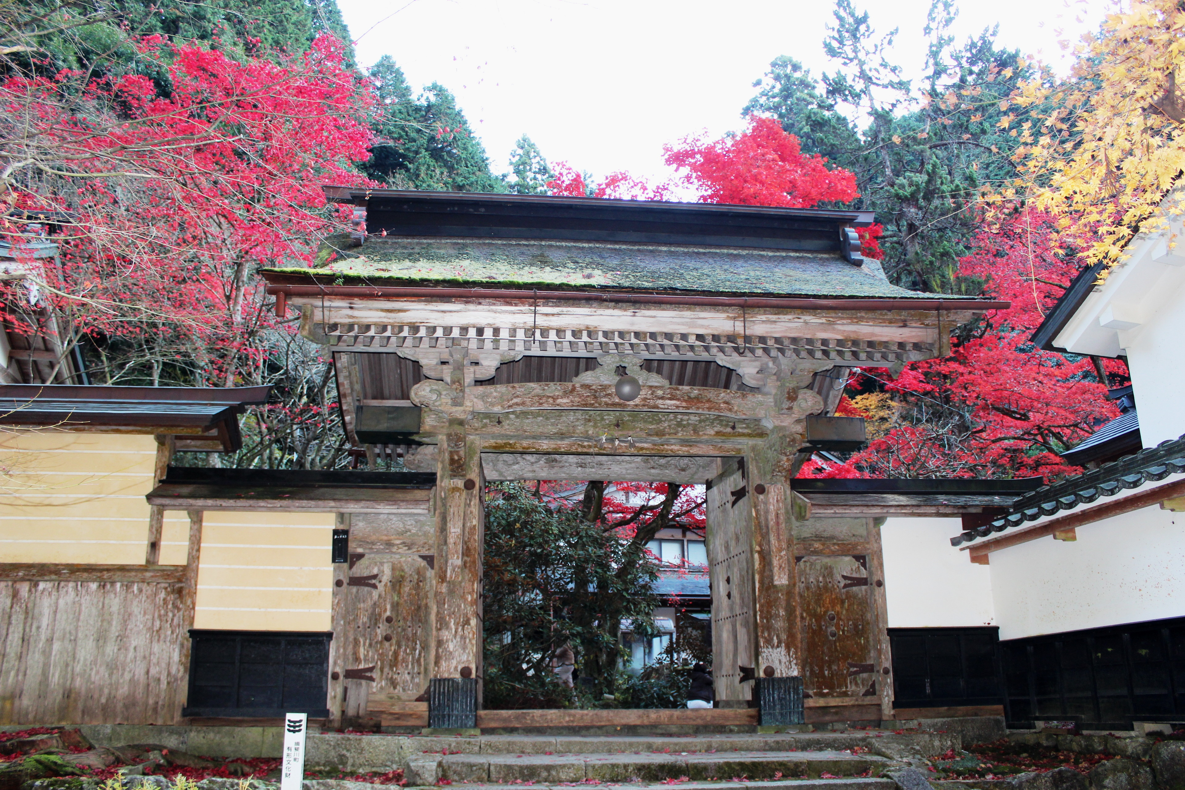 Yokokuraji Teramon, Ibigawa, Gifu, Japan